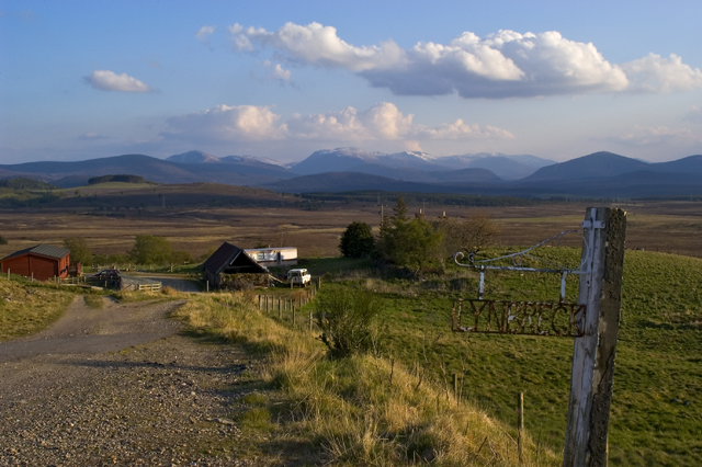 Lynebreck Farm. Lynebreck Farm off the old military road against the magnificent backdrop of the Cairngorms